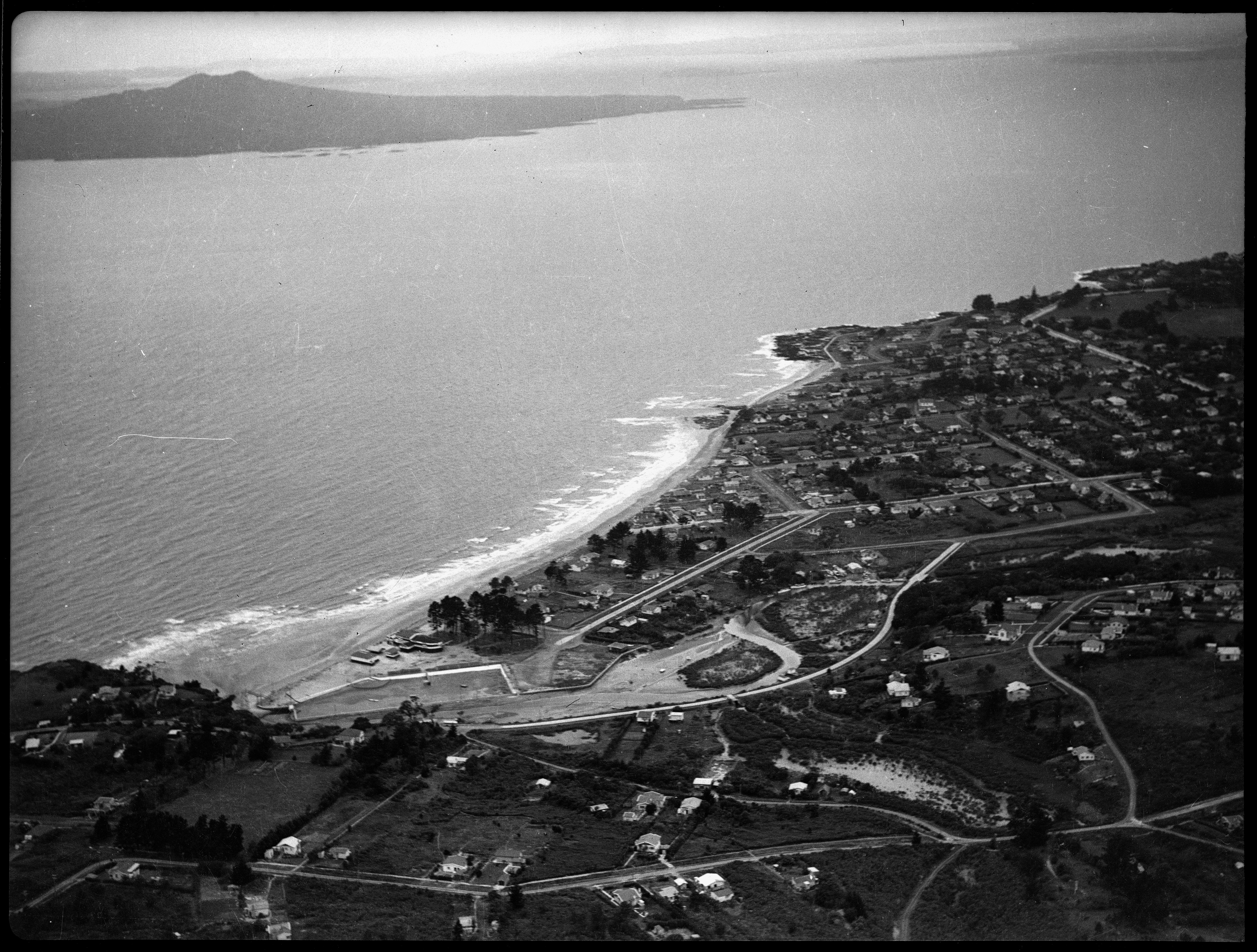 Aerial view of Milford, Auckland, ca 1920s-1940s Reference Number: 1/4-019688-F Photographer: William Hall Raine Film negative Photographic Archive, Alexander Turnbull Library " Find out more about this image on our Manuscripts + Pictorial website